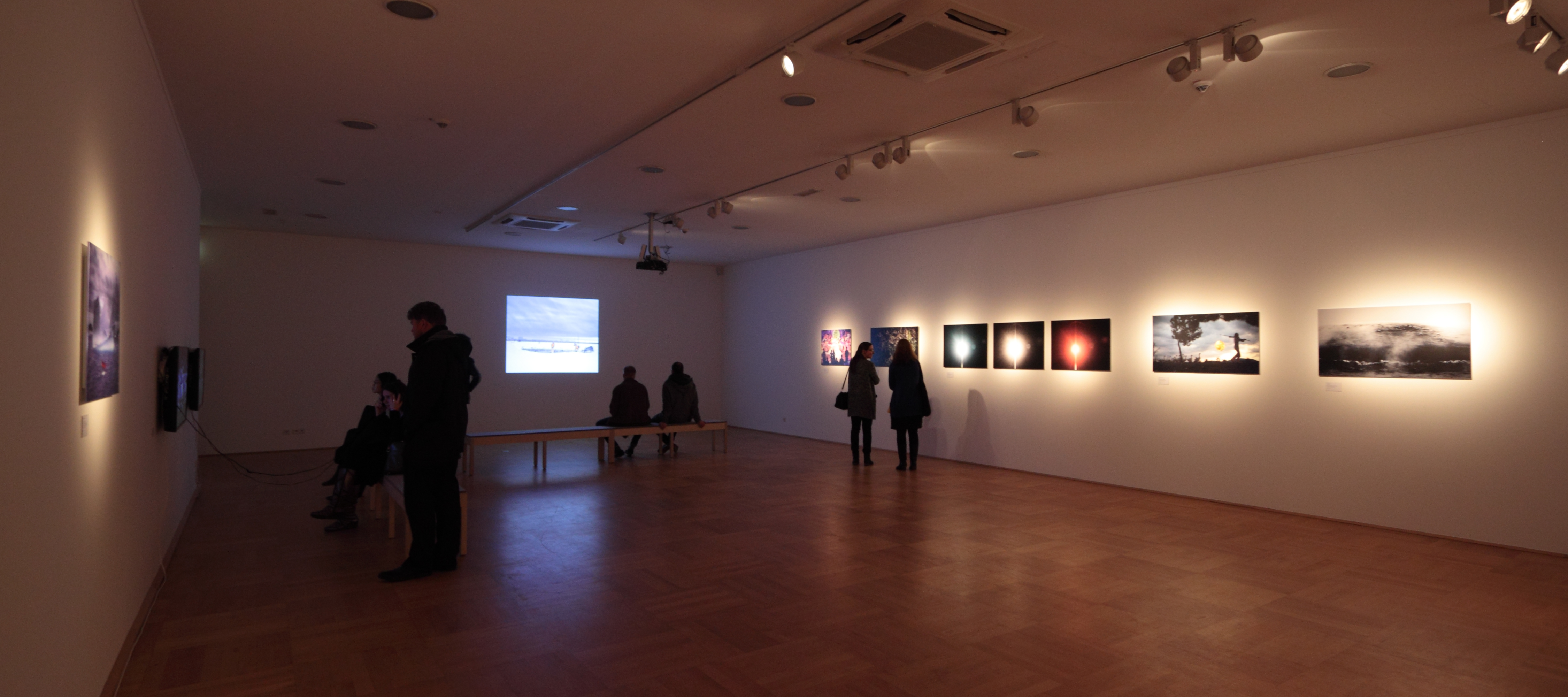 The exhibition same same but different by the imai Foundation at NRW-Forum in Dusseldorf, 2015, showed several video artworks and an edition of video stills, mounted on/behind acrylic glass.